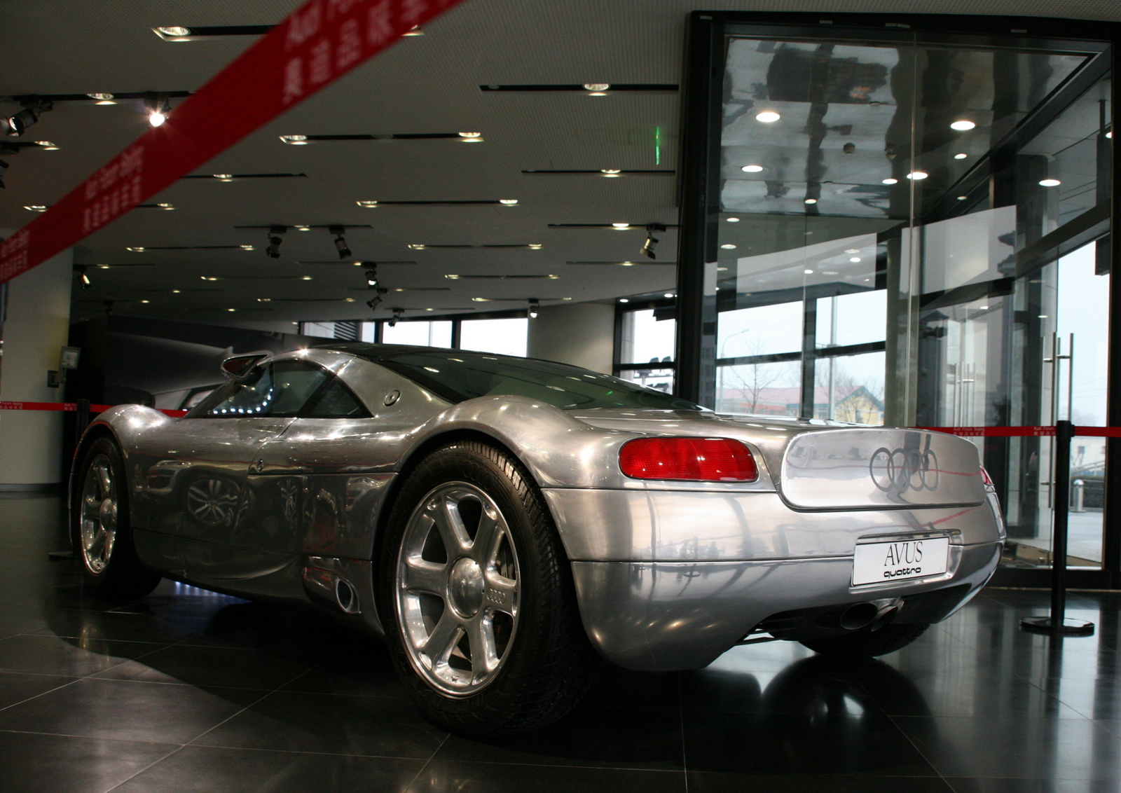 The Audi Avus concept car being exhibited at the Audi Forum Beijing in Dec 2006.